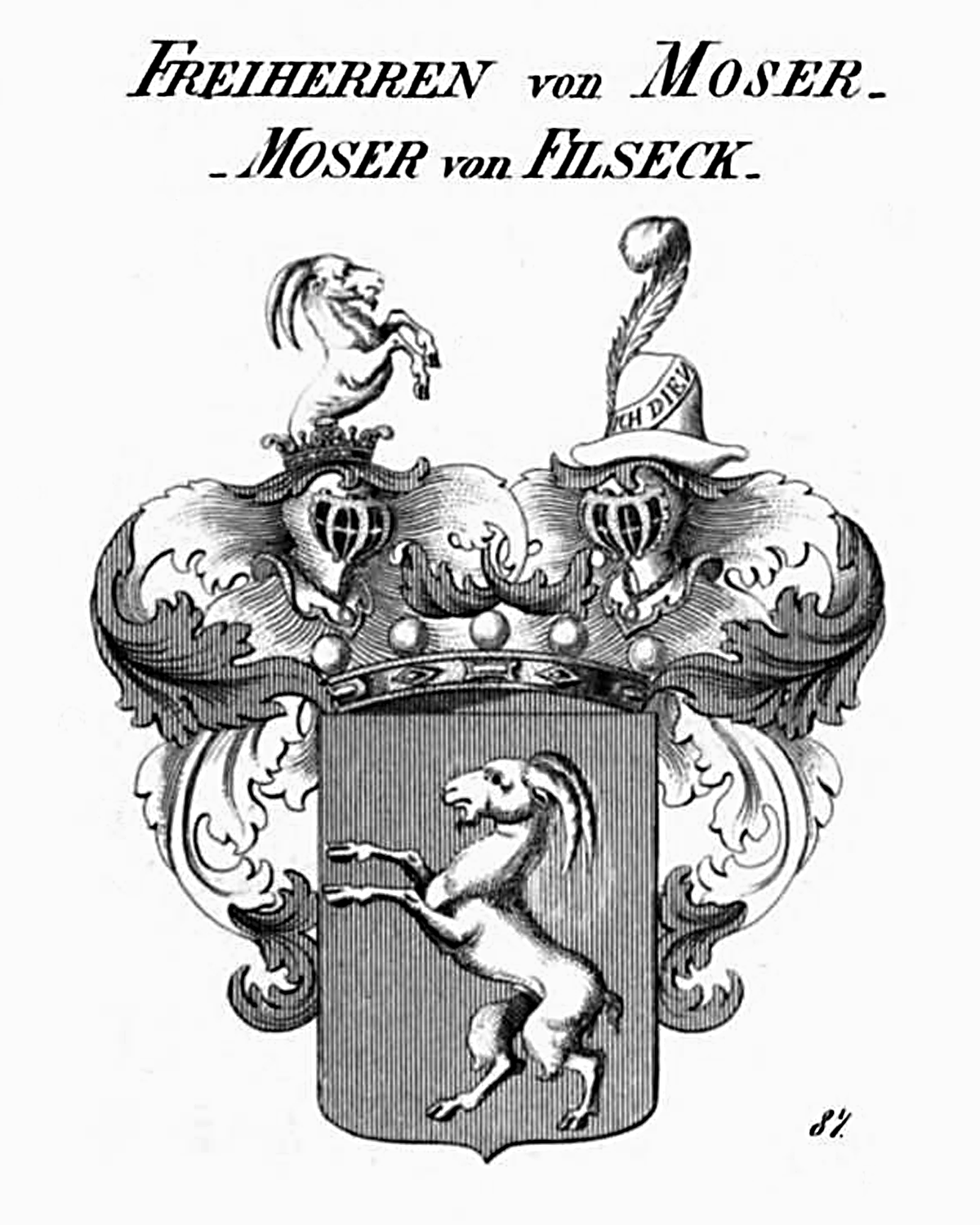 Coats of Arms of Moser von Filseck